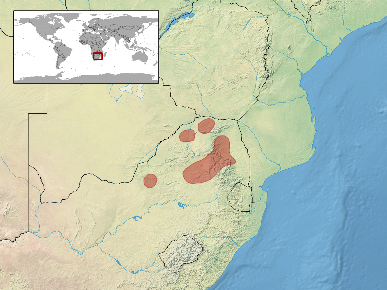 geographic distribution of Lygodactylus nigropunctatus (Native: South Africa (Gauteng, Limpopo Province, Mpumalanga, North-West Province))